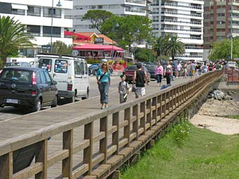 Boardwalk of Punta del Este